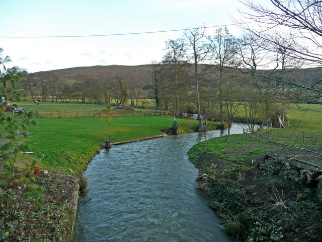 River Kemp flowing downstream Towards the confluence with the Clun. Clunbury Hill rises up in the background. The eagle-eyed may spot the plastic heron!